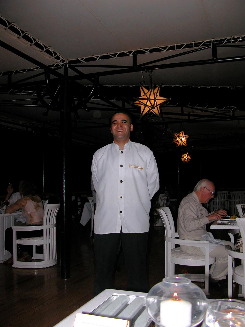 Two waiters looked after me at meals during the whole trip, this is one of them.